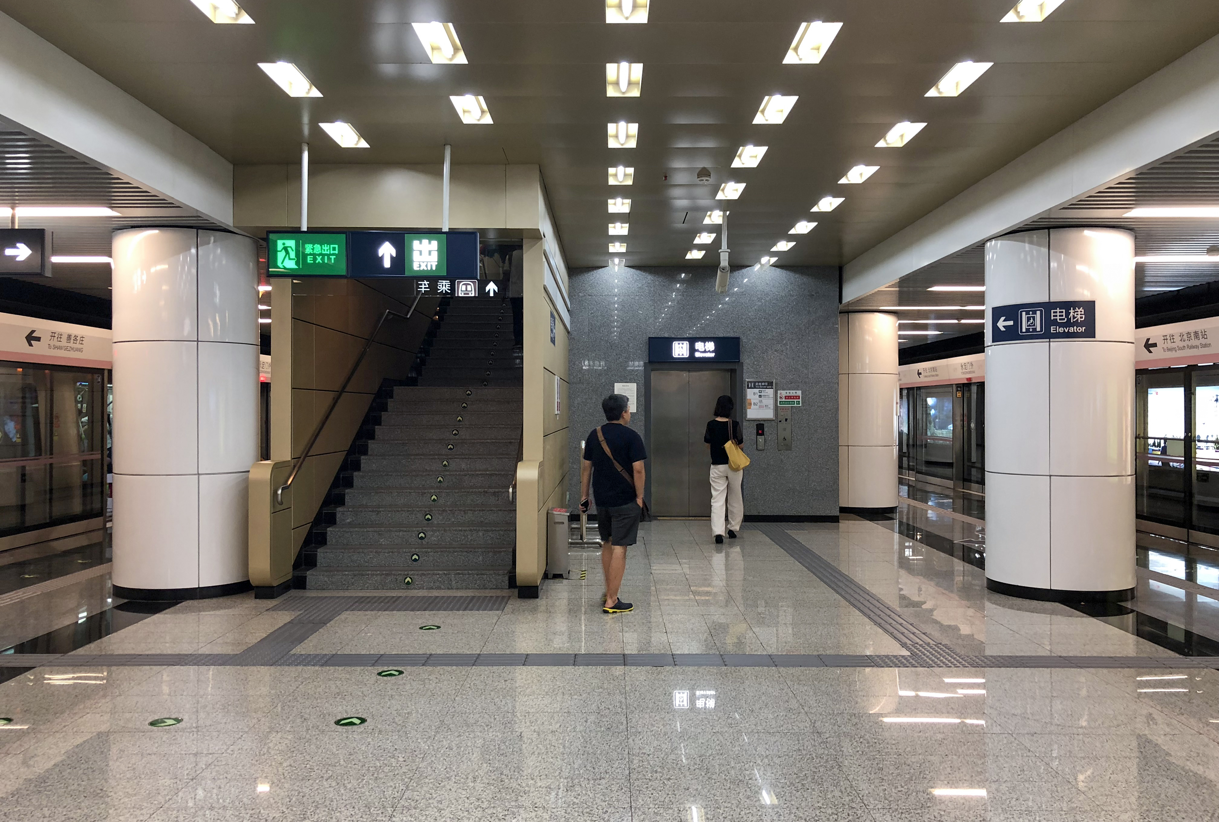 Lift and stairs in the middle.